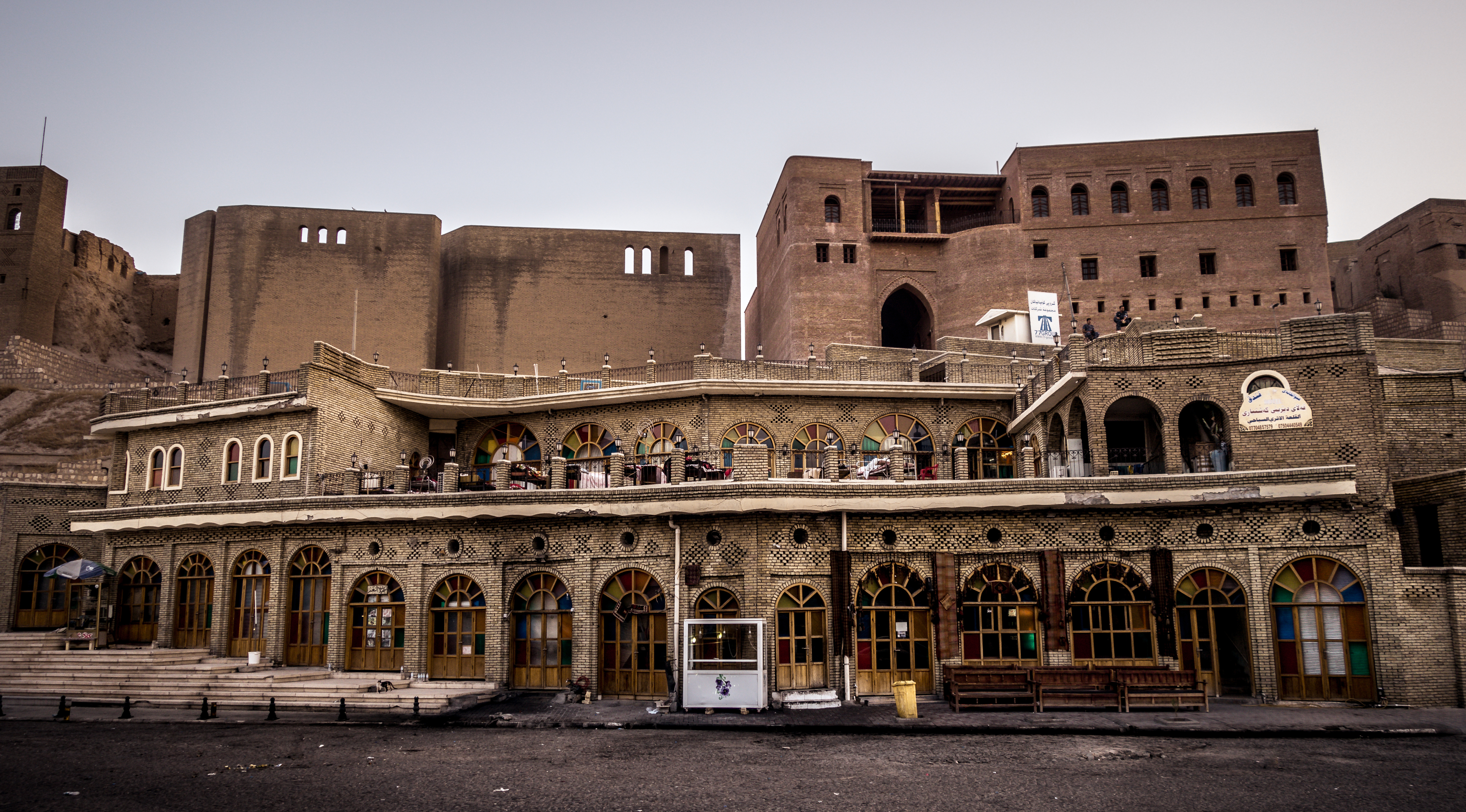 A thousand year old Citadel Above a hundred year old tea house , located at the heart of the city of Arbil, Iraq.